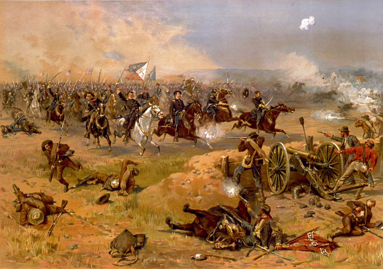 Title: Sheridan's final charge at Winchester / Thulstrup ; fac-simile print by L. Prang & Co. Creator(s): L. Prang & Co., Date Created/Published: c1886. Medium: 1 print : chromolithograph. Summary: Philip Henry Sheridan leading troops in battle. Reproduction Number: LC-DIG-pga-04046 (digital file from original print) LC-USZC4-1965 (color film copy transparency) LC-USZ62-4927 (b&w film copy neg.) Call Number: PGA - Prang--Sheridan's final charge at Winchester (C size) [P&P] Repository: Library of Congress Prints and Photographs Division Washington, D.C. 20540 USA